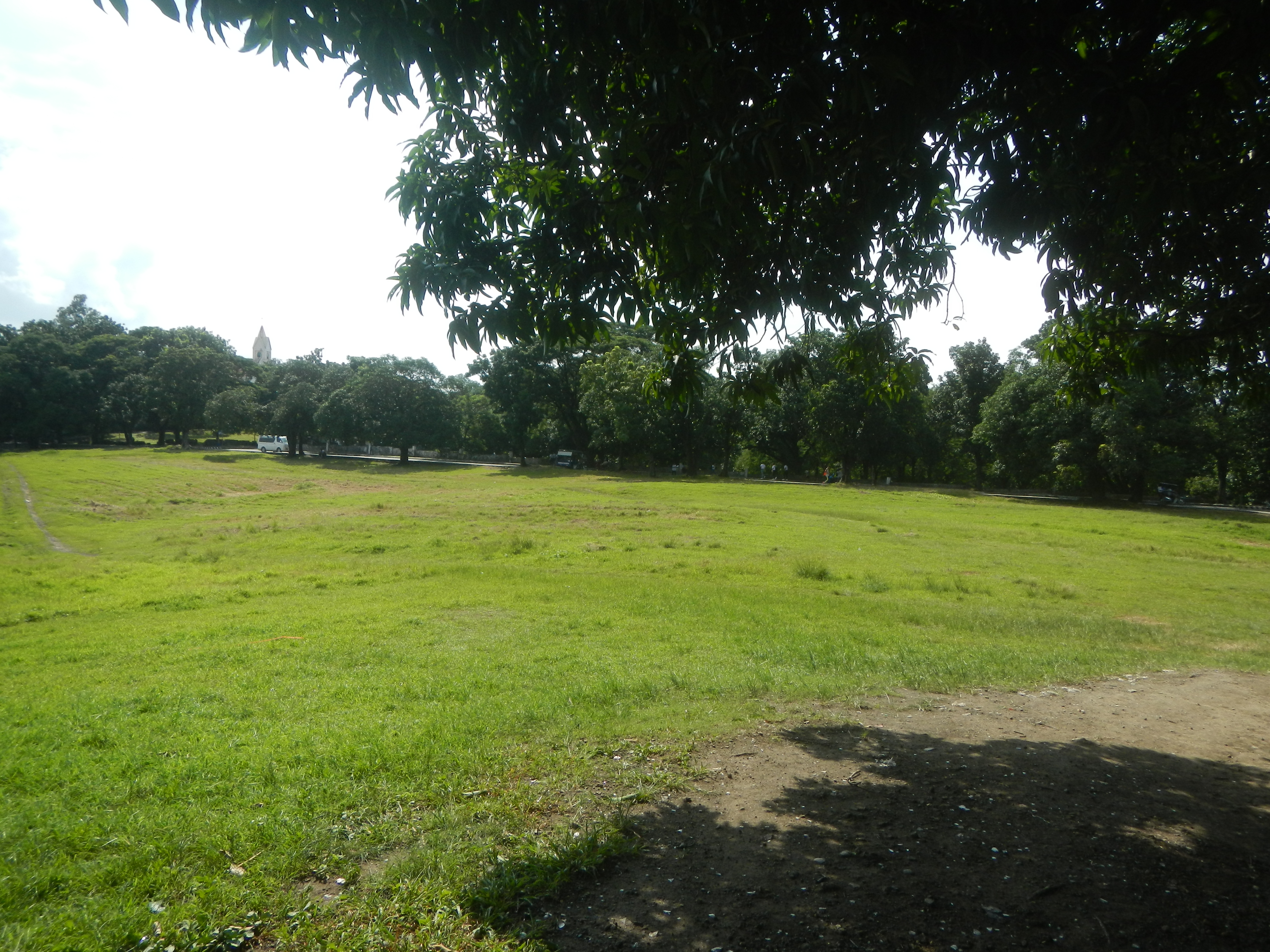 Iustitia National Bilibid Prison Reservation (Bureau of Corrections, Muntinlupa City) Eriberto B. Misa, Sr. monument Jamboree Lake (National Bilibid Prison Reservation, Bureau of Corrections, Muntinlupa City) Memorial for Peace (National Bilibid Prison Reservation, Bureau of Corrections, Muntinlupa City-Gunma, Gunma, Japan) Grotto and Sunken Garden (National Bilibid Prison Reservation, Bureau of Corrections, Muntinlupa City) Itaas Elementary School (National Bilibid Prison Reservation, Bureau of Corrections, Muntinlupa City) South Luzon Expressway National Road (Alabang, Bayanan, Putatan and Poblacion), Muntinlupa City National Road (Tunasan, Muntinlupa City) Barangays Poblacion 14°22'48"N 121°1'53"E City of Muntinlupa Poblacion, Muntinlupa New Bilibid Prison Bureau of Corrections (Philippines) Putatan, Muntinlupa Tunasan Philippine highway network (Note: Judge Florentino Floro, the owner, to repeat, Donor Florentino Floro of all these photos hereby donate gratuitously, freely and unconditionally Judge Floro all these photos to and for Wikimedia Commons, exclusively, for public use of the public domain, and again without any condition whatsoever).